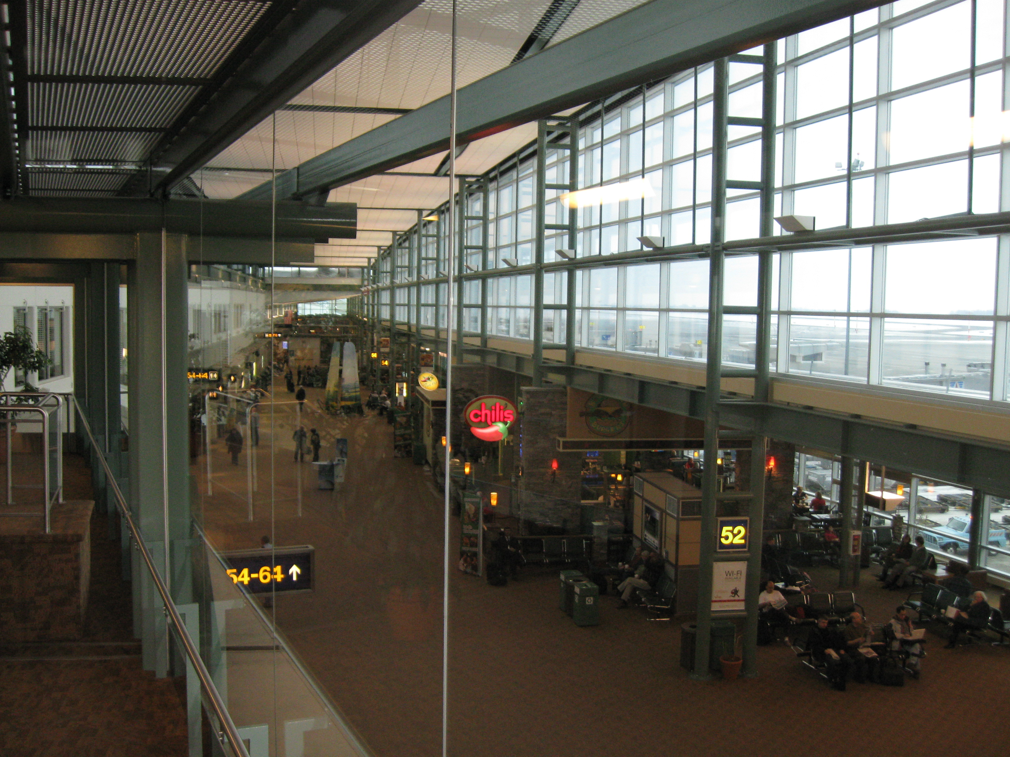 ST at CYEG